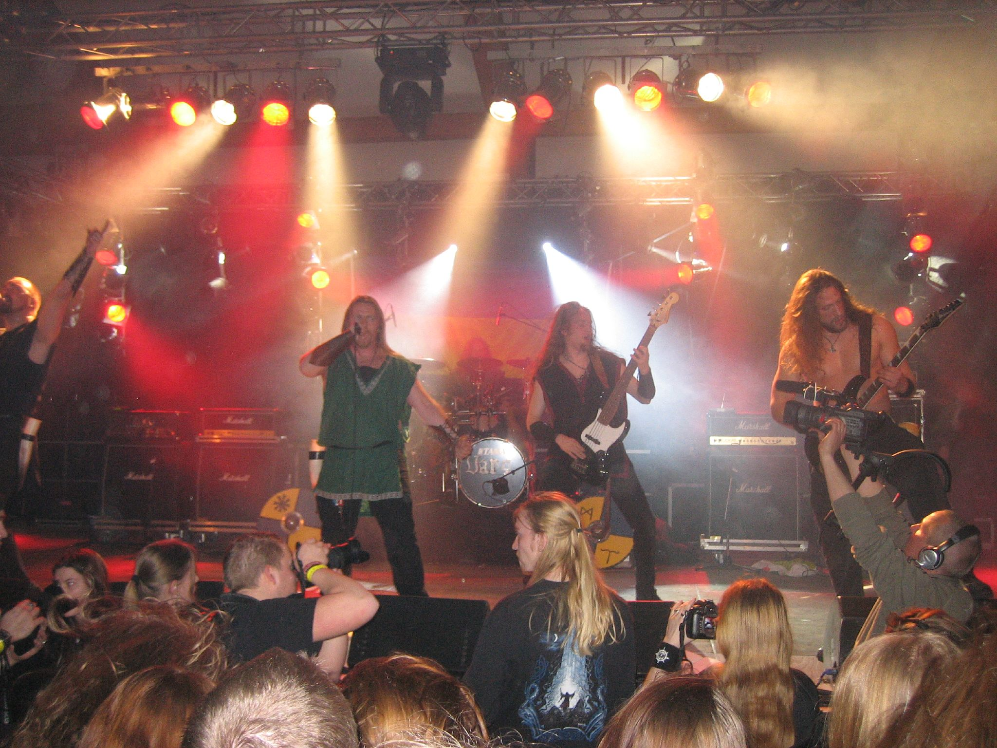 Heidevolk at the Ragnarök Festival in 2007.